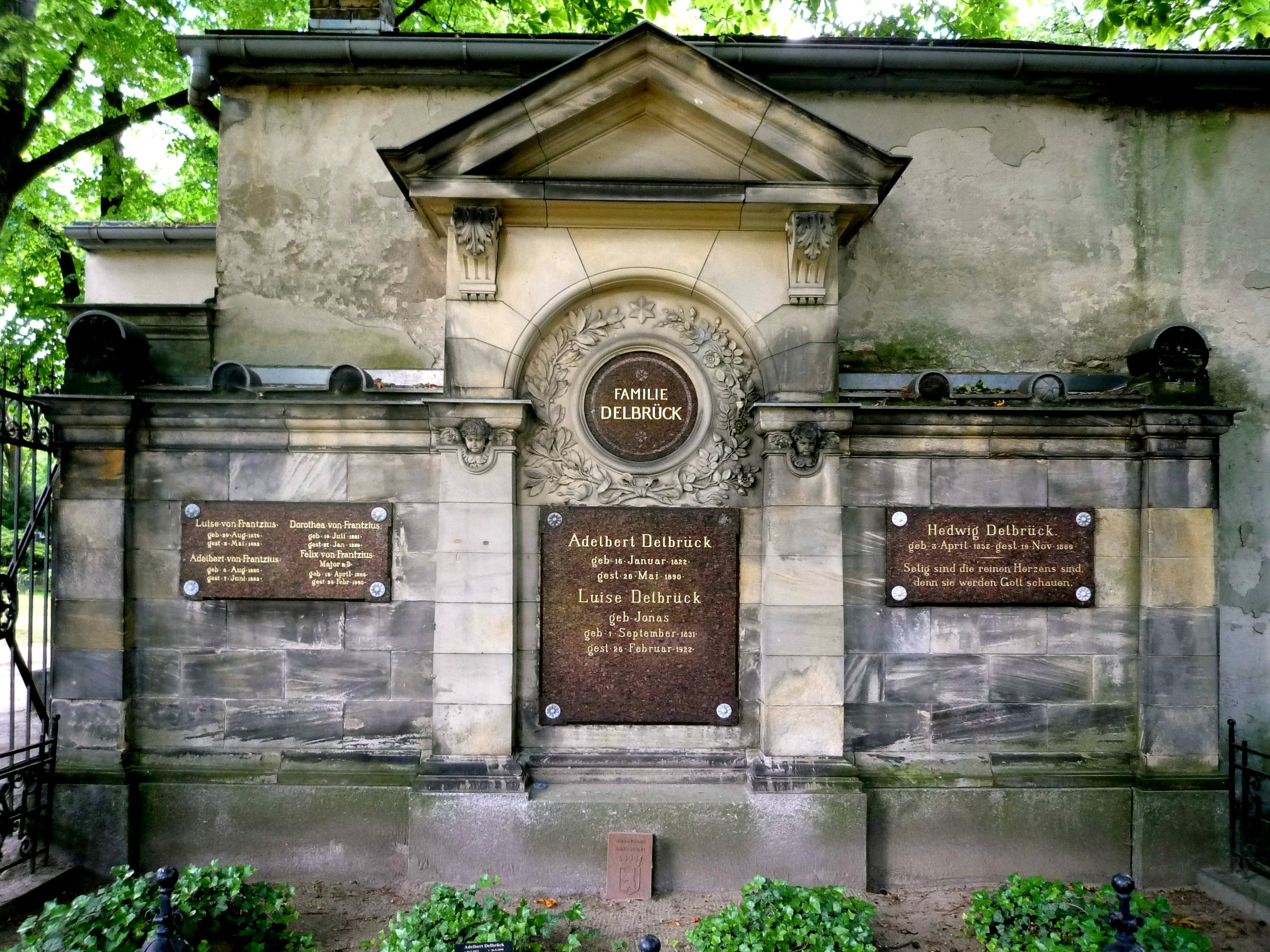 Tombstone for the family of Adelbert Delbrück (1822-1890), a german banker.